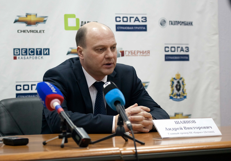 Barys Astana head coach Andrei Shayanov after the KHL-game against Amur Khabarovsk on December 10, 2011 (Barys won 5-2).